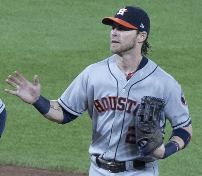 The Houston Astros celebrate a victory against the Baltimore Orioles at Oriole Park at Camden Yards on July 22, 2017 in Baltimore, Maryland.